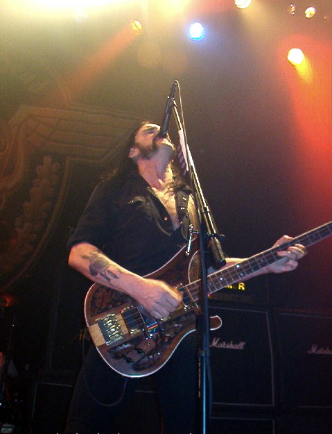 Lemmy Motorhead The Blue Note Columbie, MO